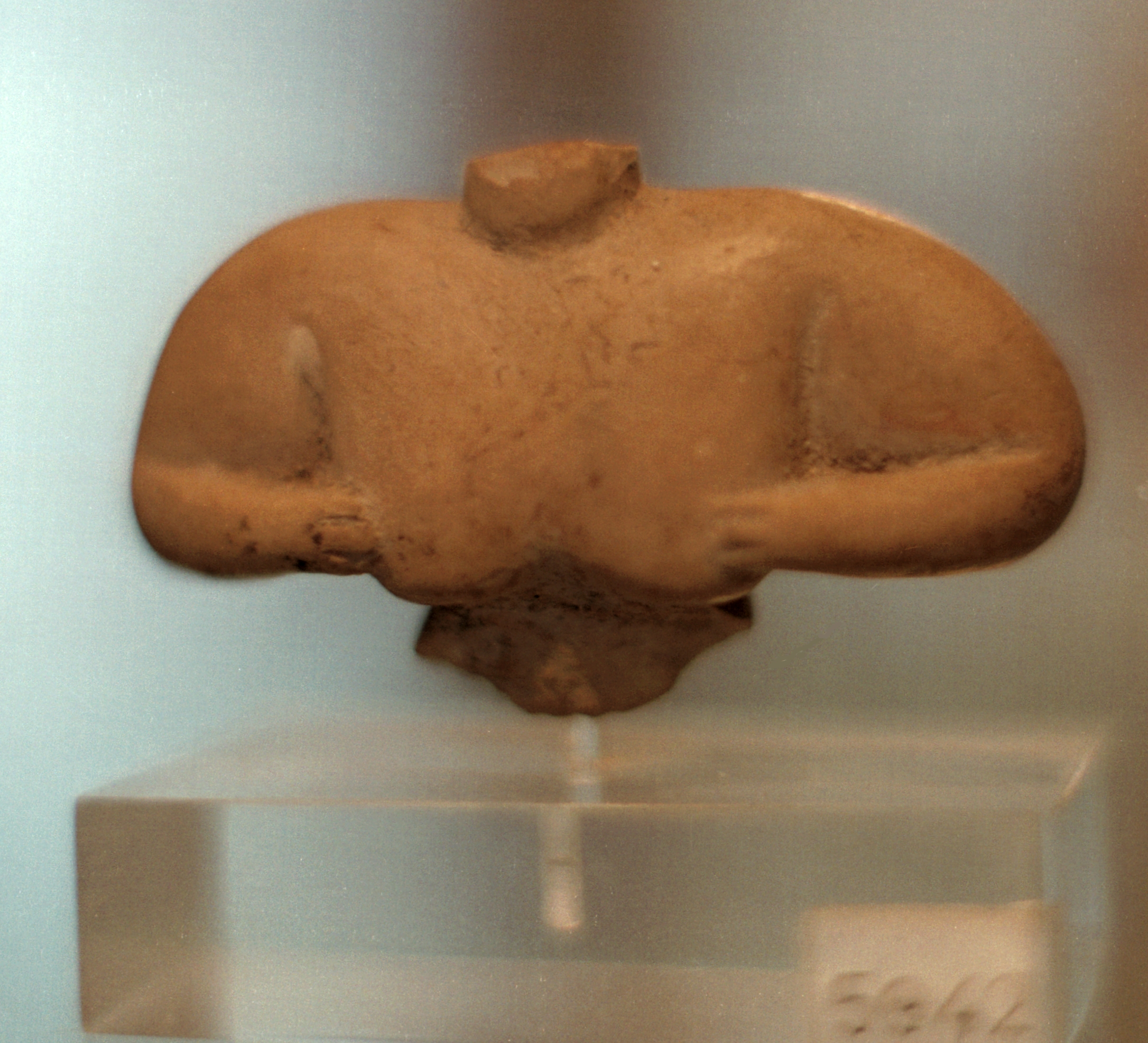 Torso of woman with hands on chest, small terracotta, Sesklo culture. Neolithic, 6. to 5. millennium BC. National Archaeological Museum of Athens.